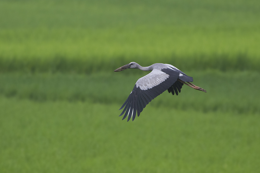 The specie Asian Openbill is in flight at its' habitat of marshland, photographed from Kolkata Outskirt, West Bengal, India on 09.09.2014.